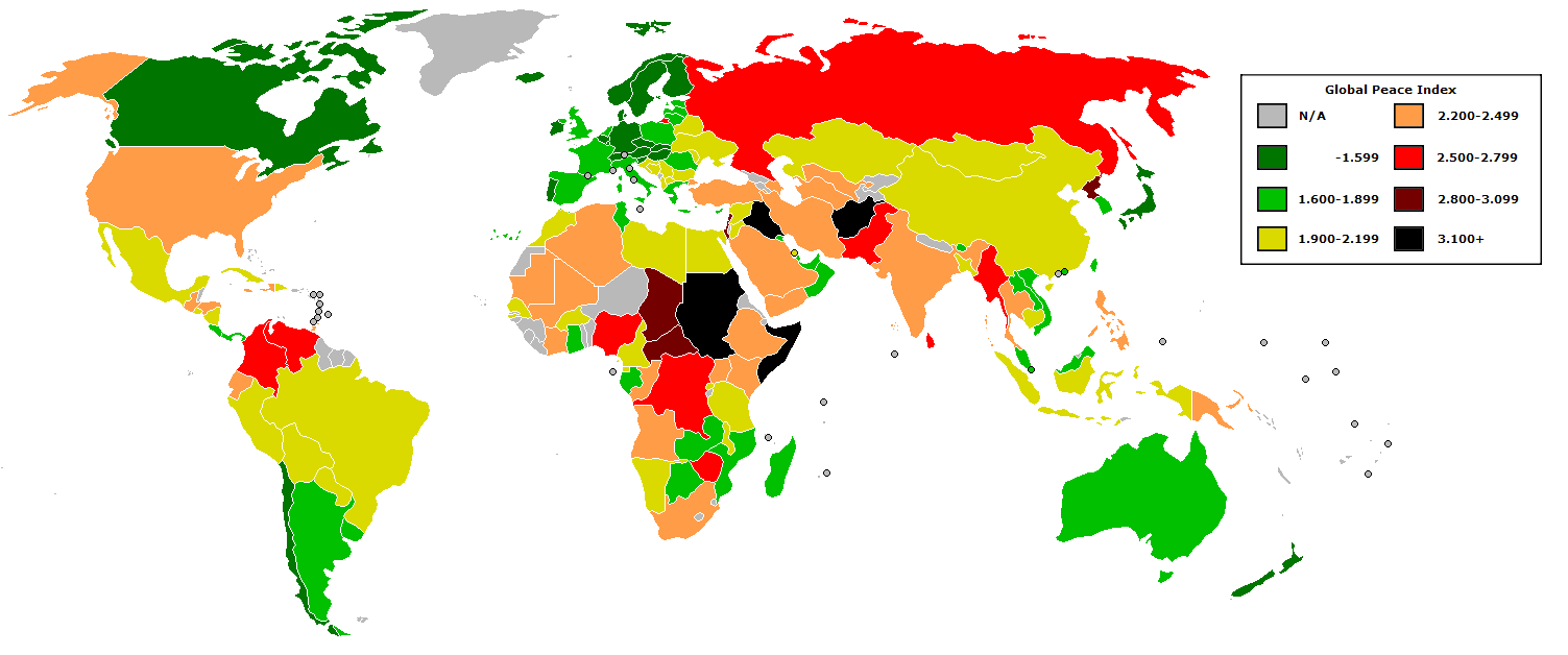 Representation of Global Peace Index in the world. The scale means: dark green = most peaceful, black = least peaceful. 'Peacefulness' is understood as 'absence of violence' [1].